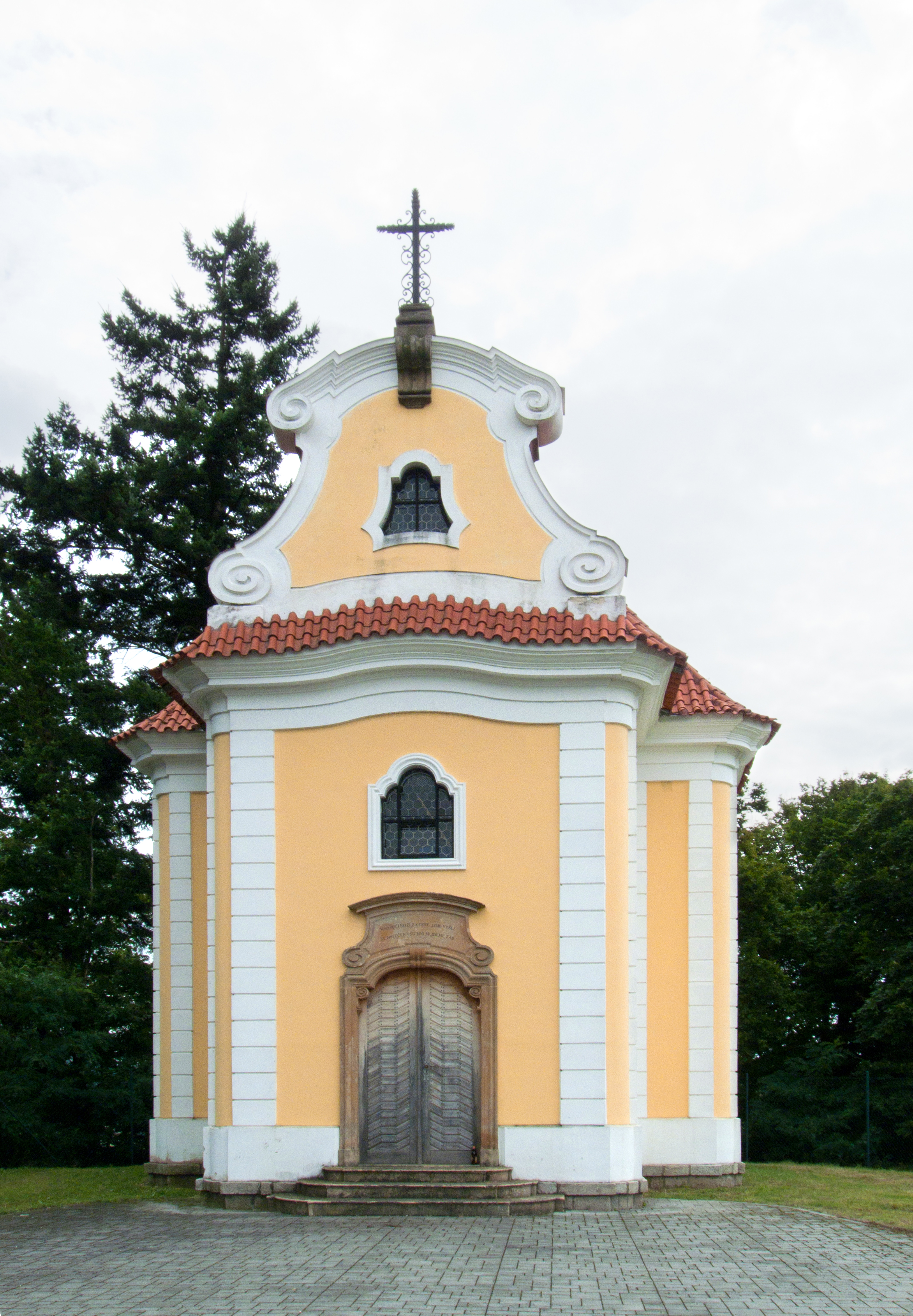 Berchtold tomb in the village of Neznašov, České Budějovice District, Czech Republic